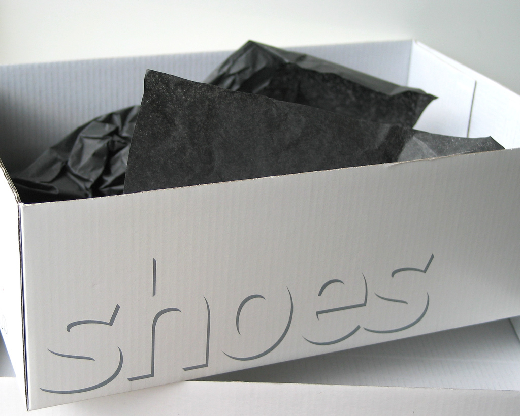 A shoe box with "shoes" written on the side.